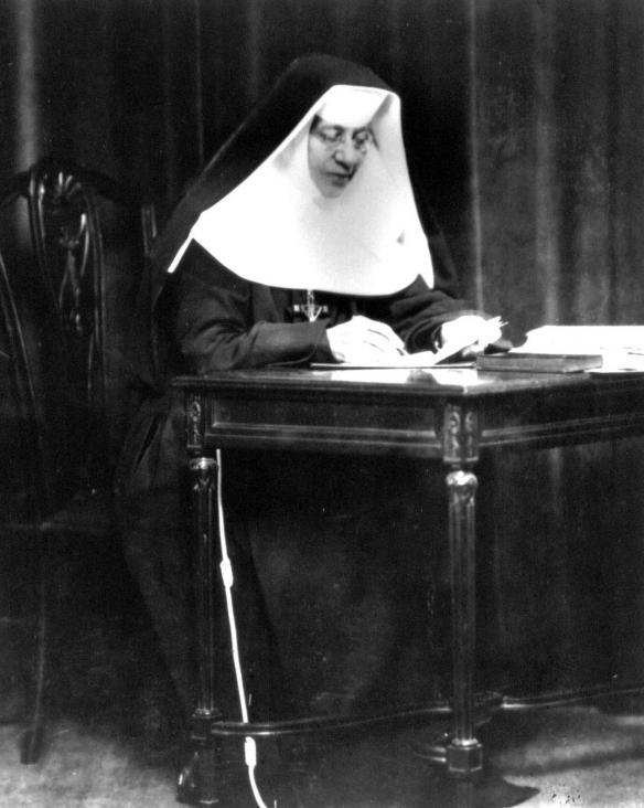 Saint Katharine Drexel, photograph, ca. 1910-1920